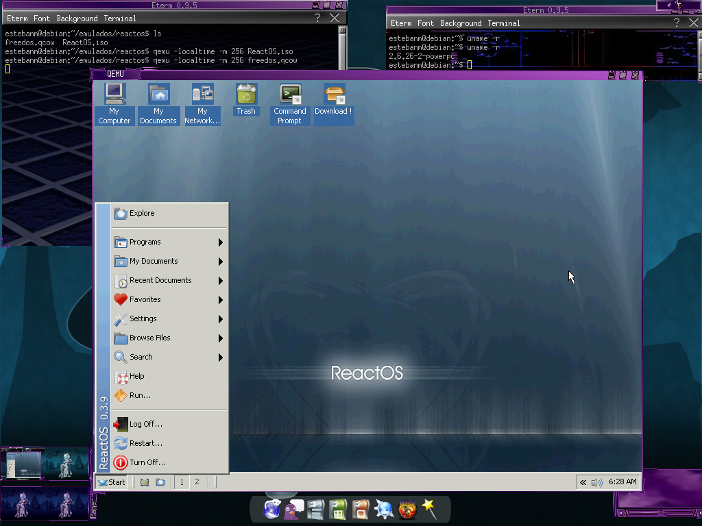 QEMU running on one iBook PowerPC laptop with ReactOS